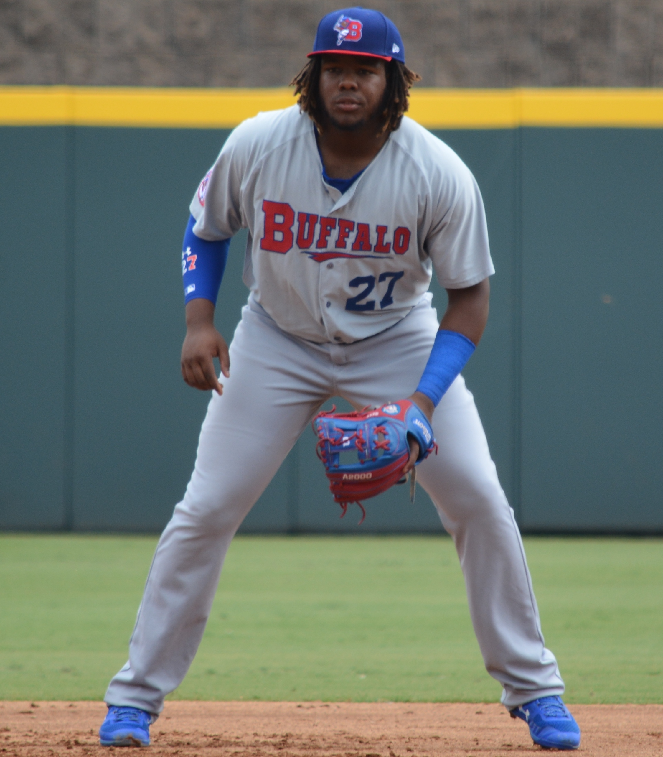 Vladimir Guerrero Jr. playing third base for the Buffalo Bisons during a 2018 game at Coolray Field in Gwinnett, Georgia.